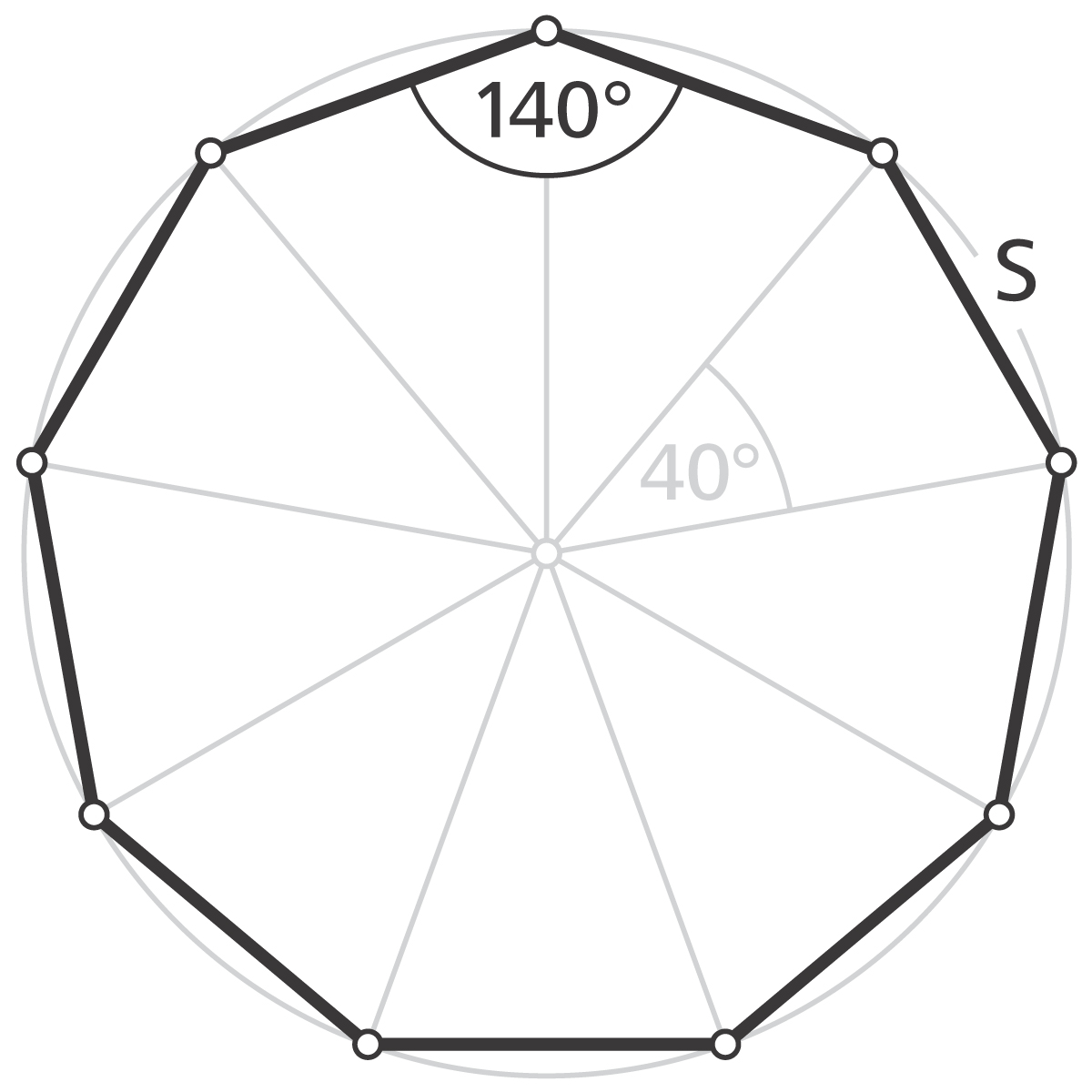 Nonagon with angles and side length denoted.